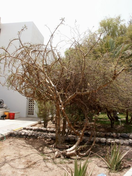 Frankincense (genus Boswellia, Muscat, Oman, 2009)